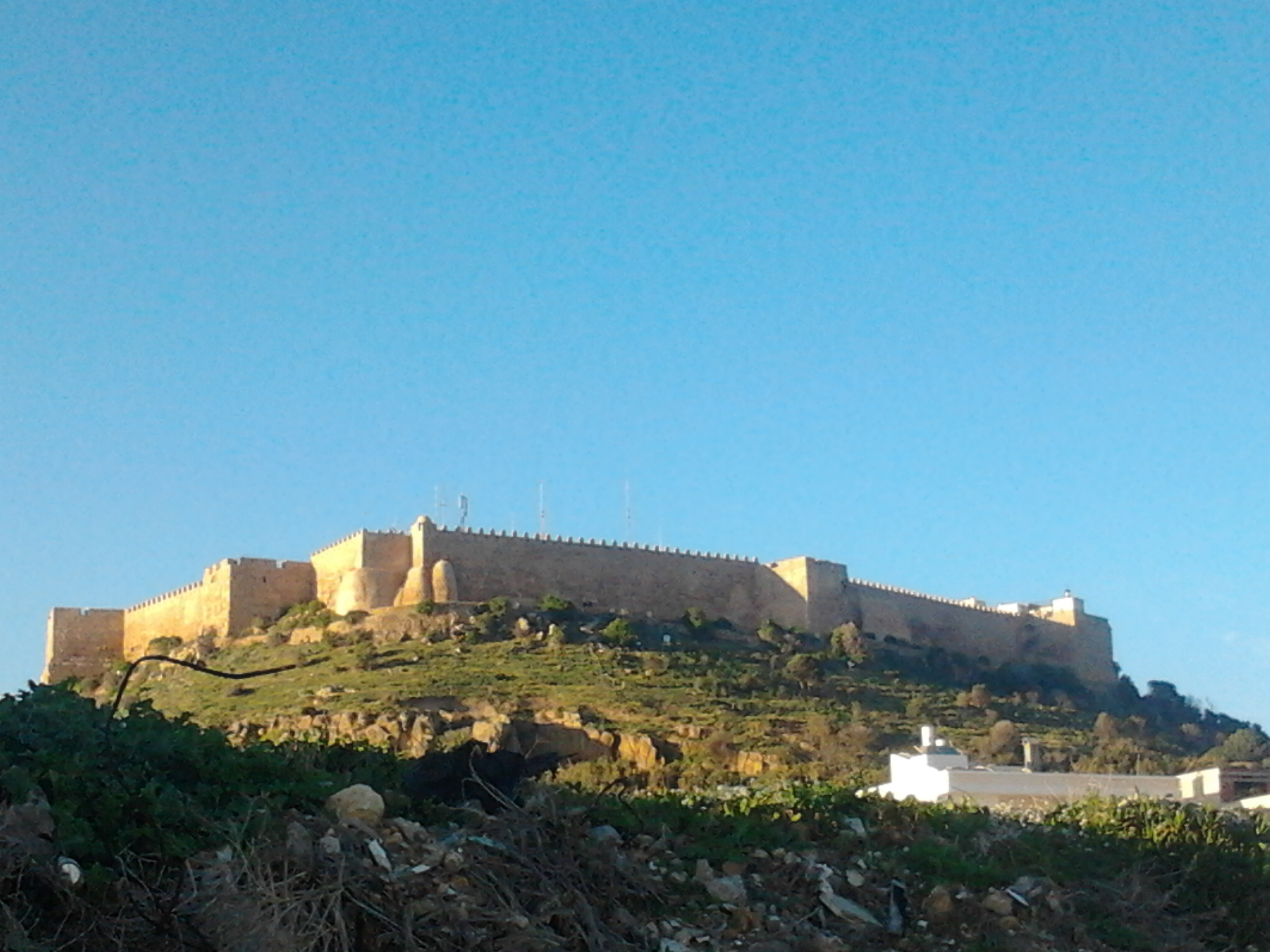 Kelibia fort